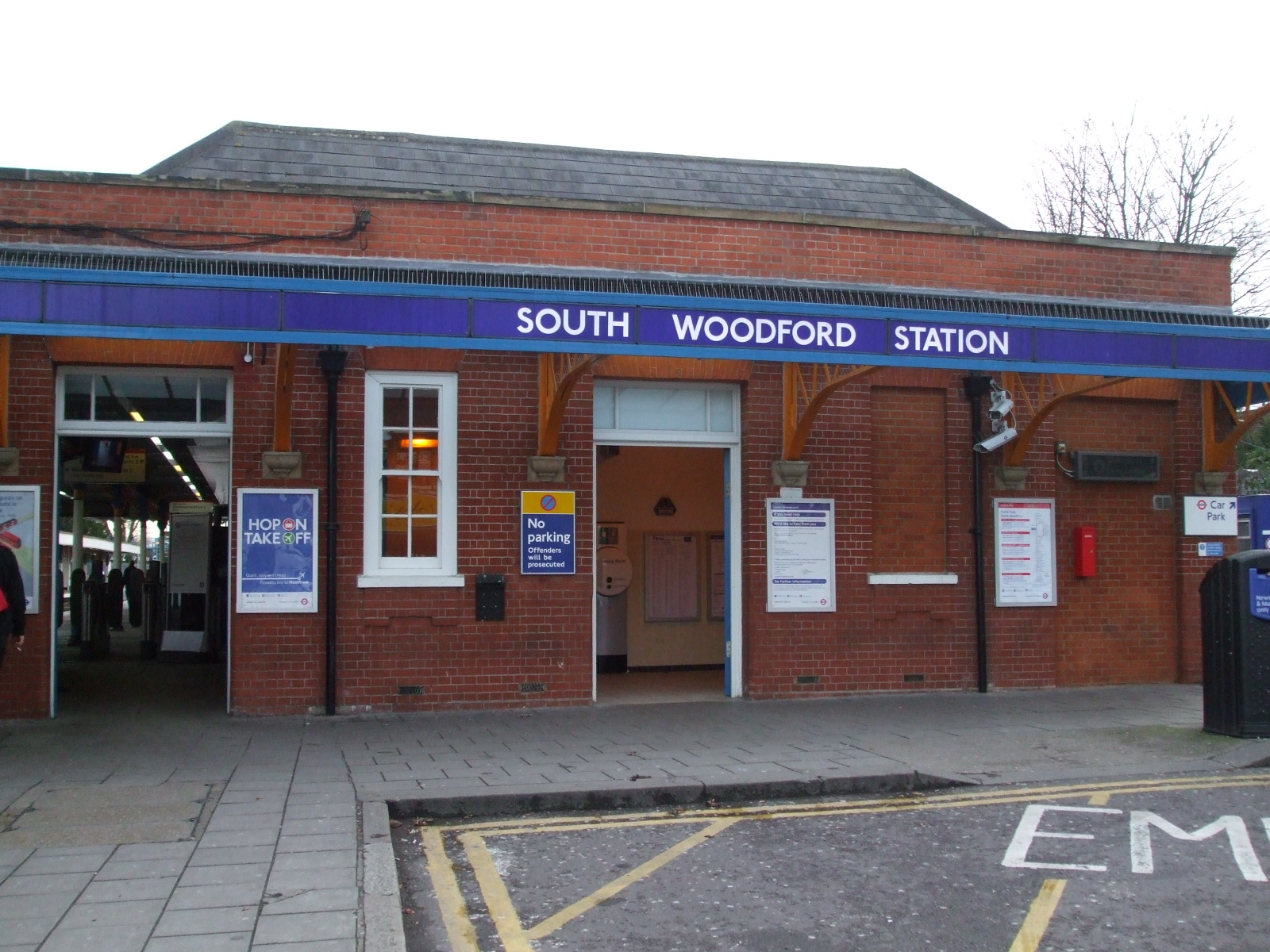 Western entrance to South Woodford tube station, on by-passed section of George Lane